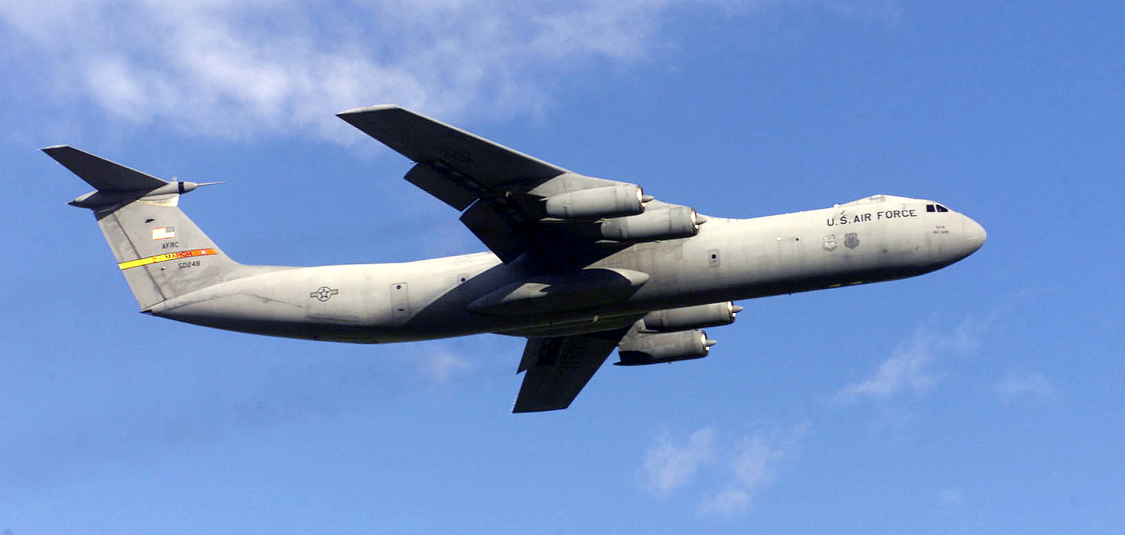 USAF Lockheed C-141C Starlifter